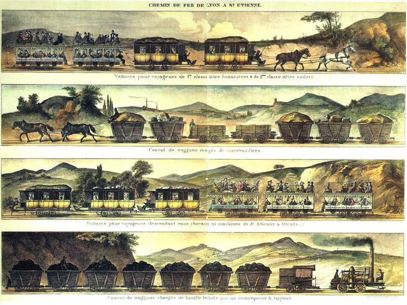 Set of four woodcuts of the St. Étienne and Lyon Railway: 1.A horse-drawn passenger train, 2. a horse-drawn train with agricultural goods, 3. a passenger train, running downhill without traction, 4. a coal transporting train drawn by a locomotive, looking like older than 1835. The exact date of the depiction is unknown.